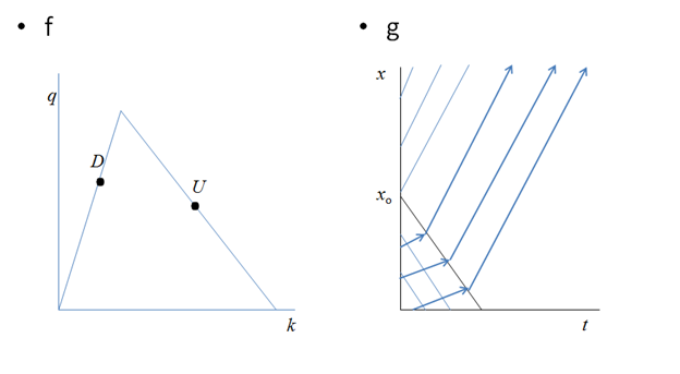 Riemann problem Case II